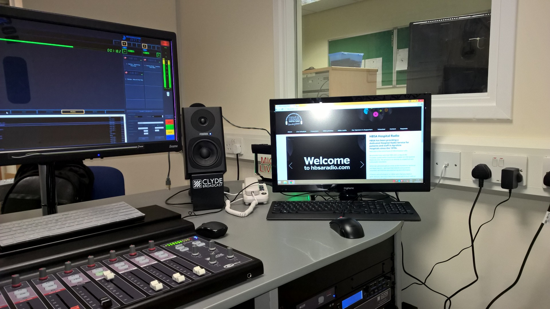 S1 at HBSA Crosshouse